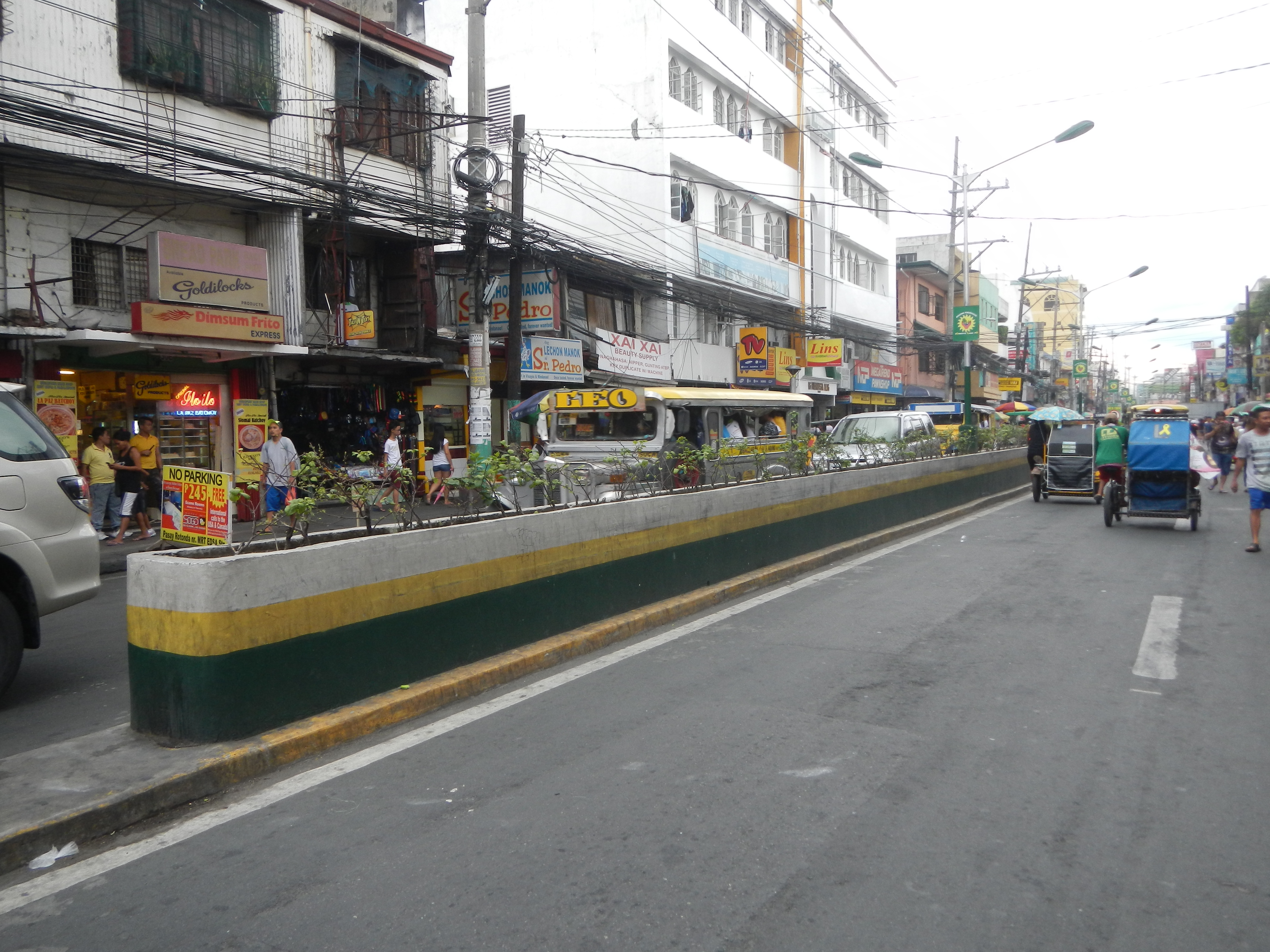 Elpidio Quirino Avenue to Roxas Boulevard, Radial Road 2 Baclaran, Parañaque (Legislative districts of Parañaque 1st District, Districts and barangays, Barangay Baclaran, Parañaque City to Roxas Boulevard).